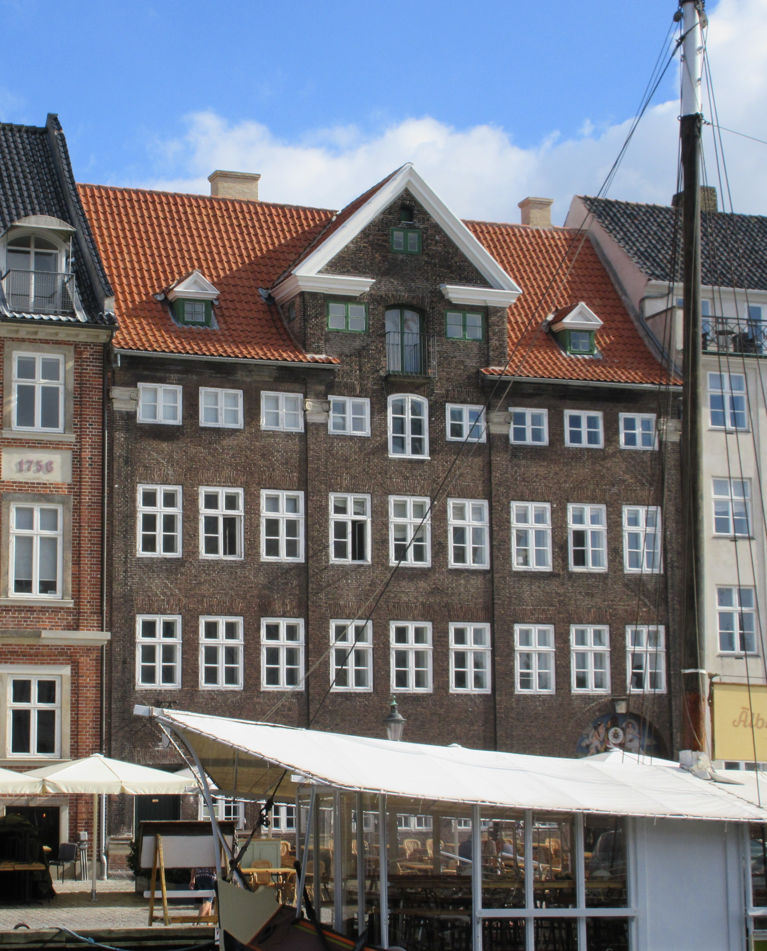 Nyhavn 65 in Copenhagen, Denmark